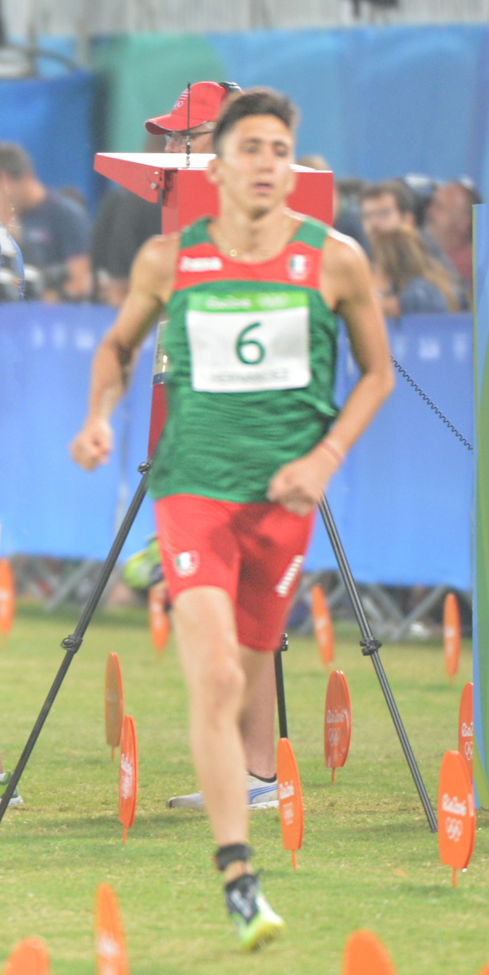 Men's Modern Pentathlon event Aug. 20 at the Rio Olympic Games in Rio de Janeiro. U.S. Army photo by Tim Hipps, IMCOM Public Affairs #SoldierOlympians #ArmyOlympians #ArmyTeam #TeamUSA #RoadToRio #ArmyStrong #GoArmy #WCAP #ArmyWCAP